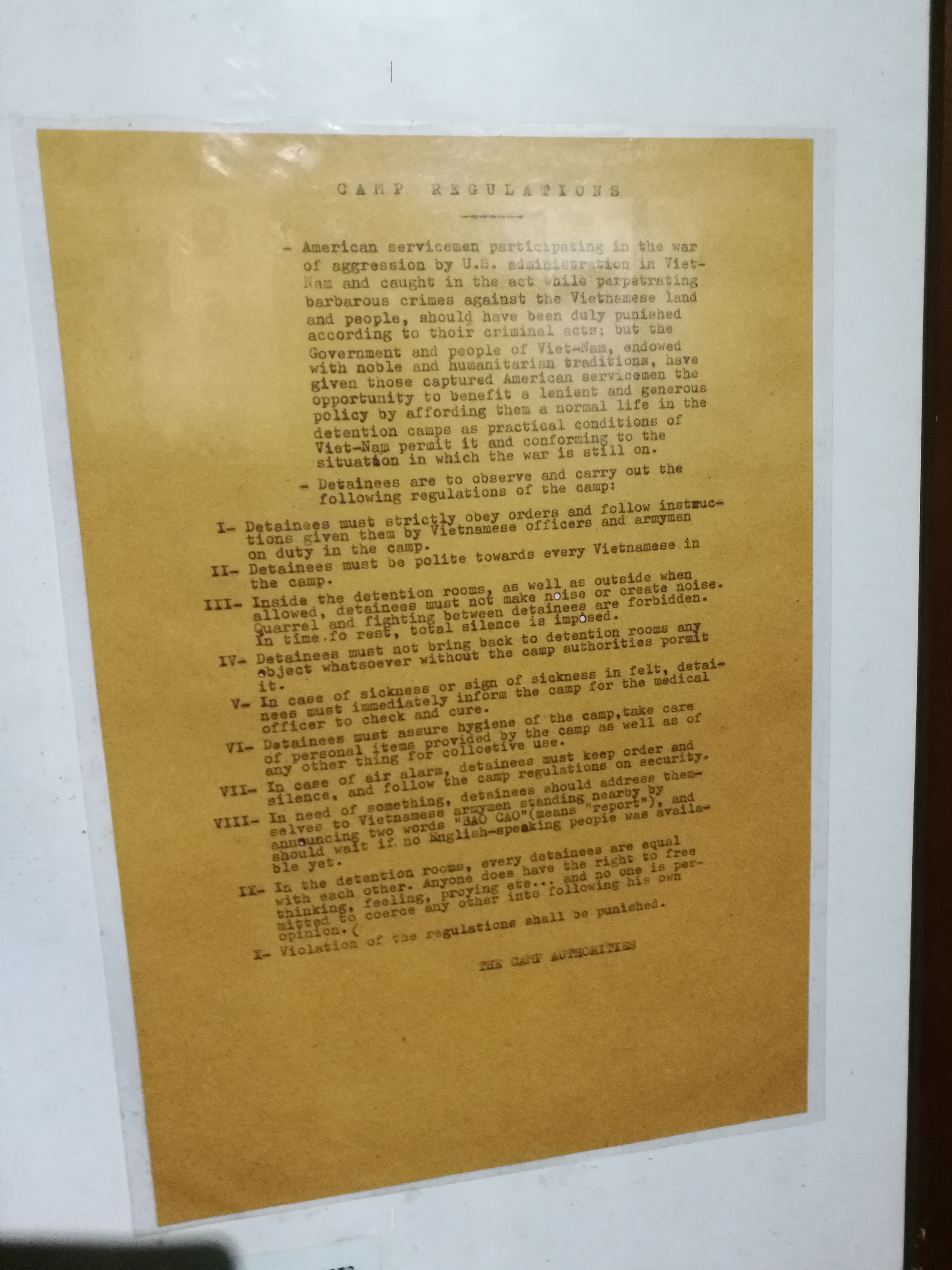 Hỏa Lò Prison Rules photographed at Hỏa Lò Prison, Hanoi, VN